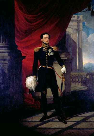 Portrait of King D.Miguel I of Portugal by Johan Ender (1827) National Palace of Queluz